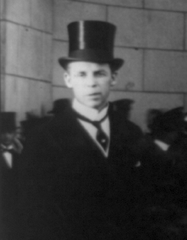 Robert Woods Bliss